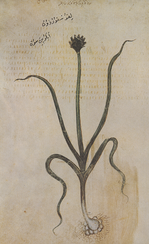 lukoskordon folio 208v